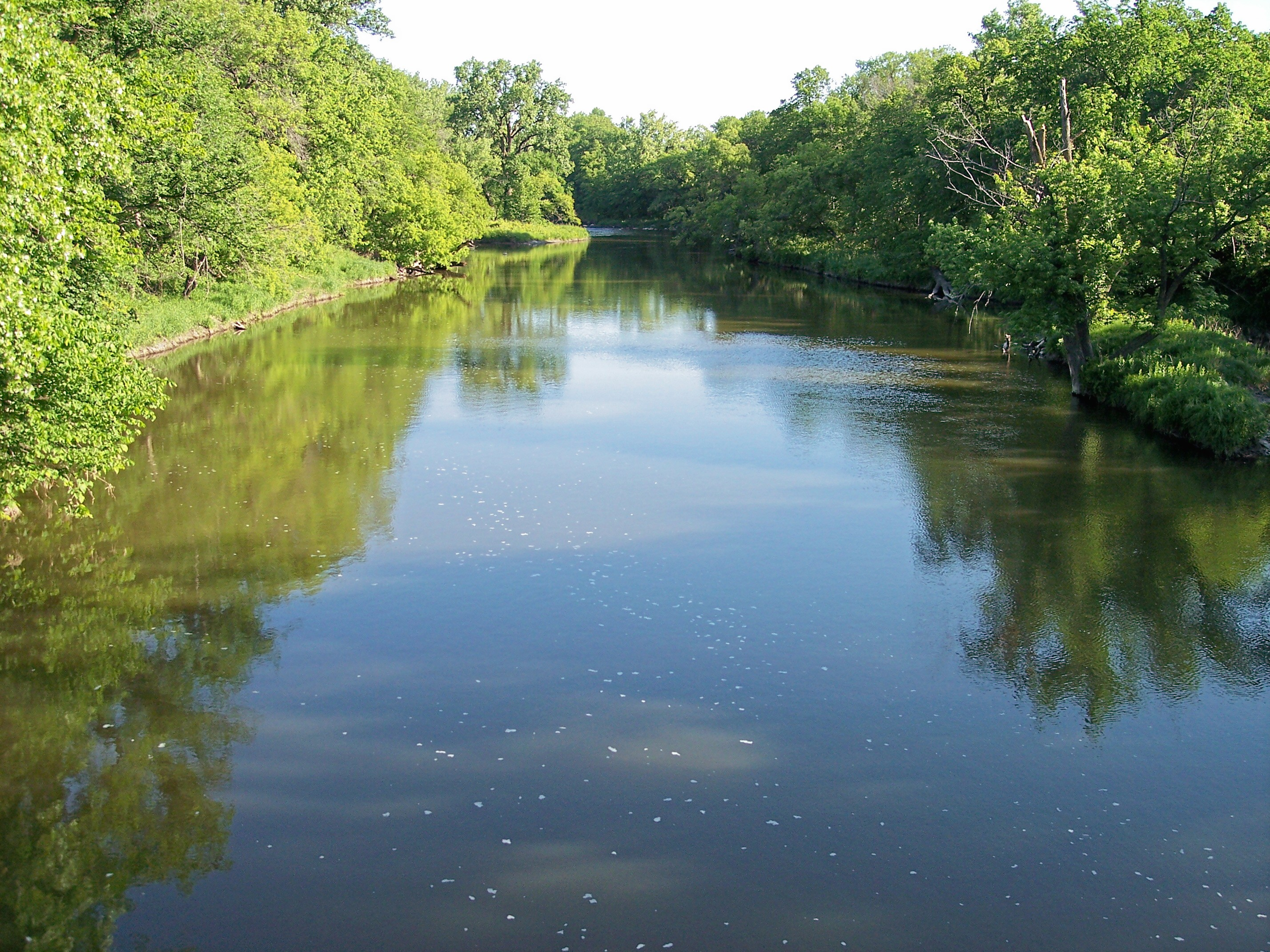 The Yellow Medicine River in Minnesota Falls Township, Minnesota, as viewed from Township Road 115. A USGS stream gauge is located at the site, six miles upstream from the river's mouth.